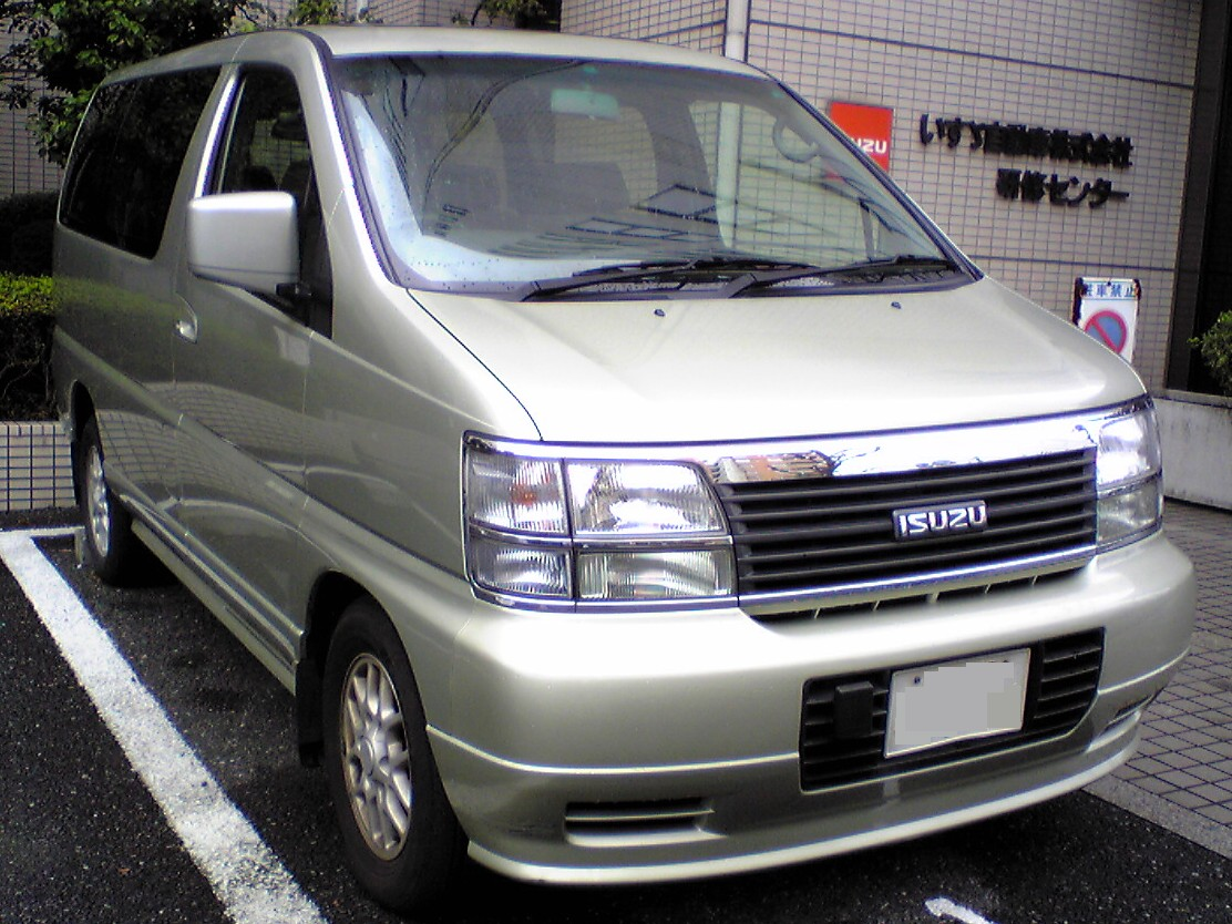 ISUZU FILLY front